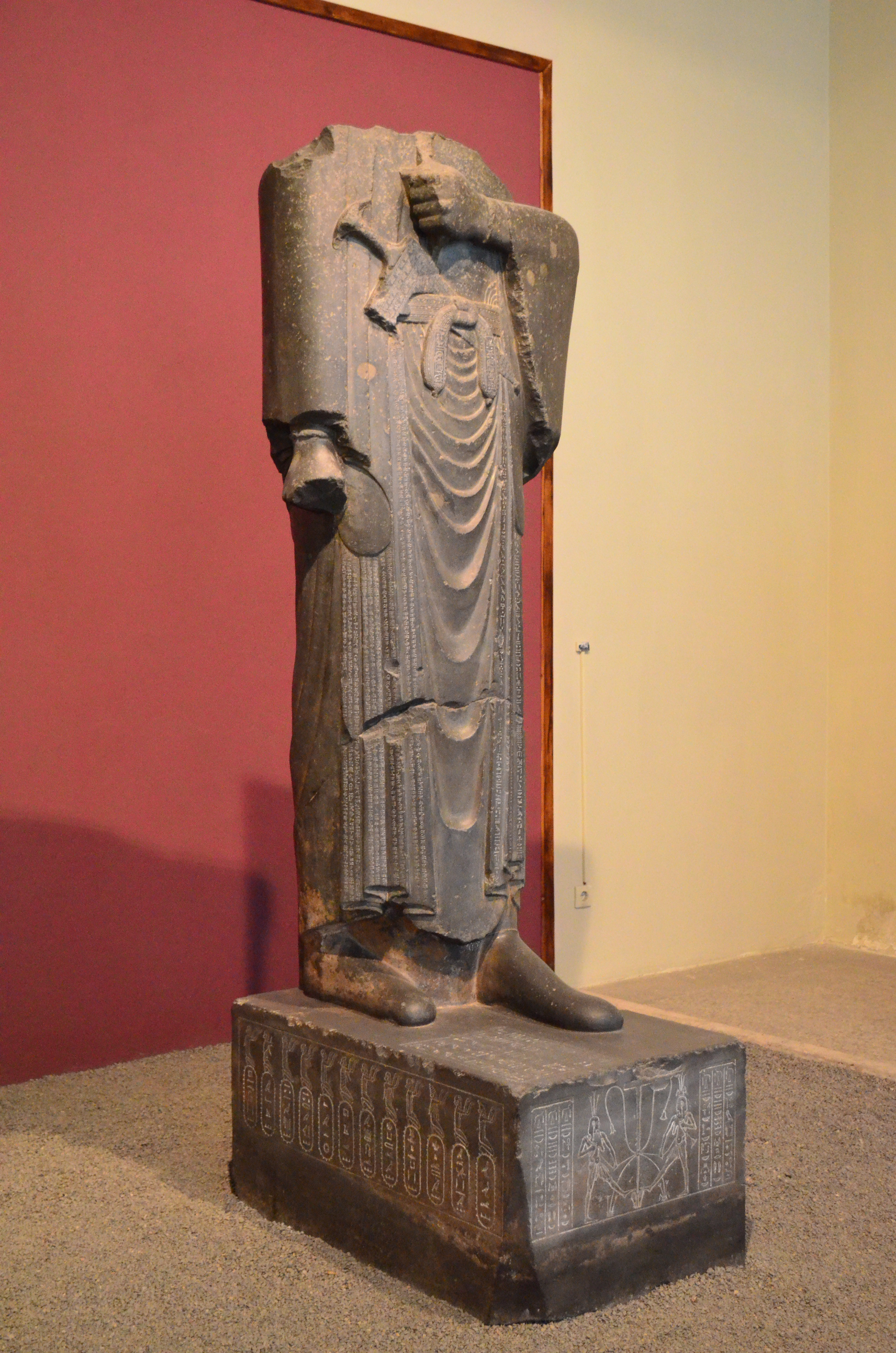 National Museum of Iran